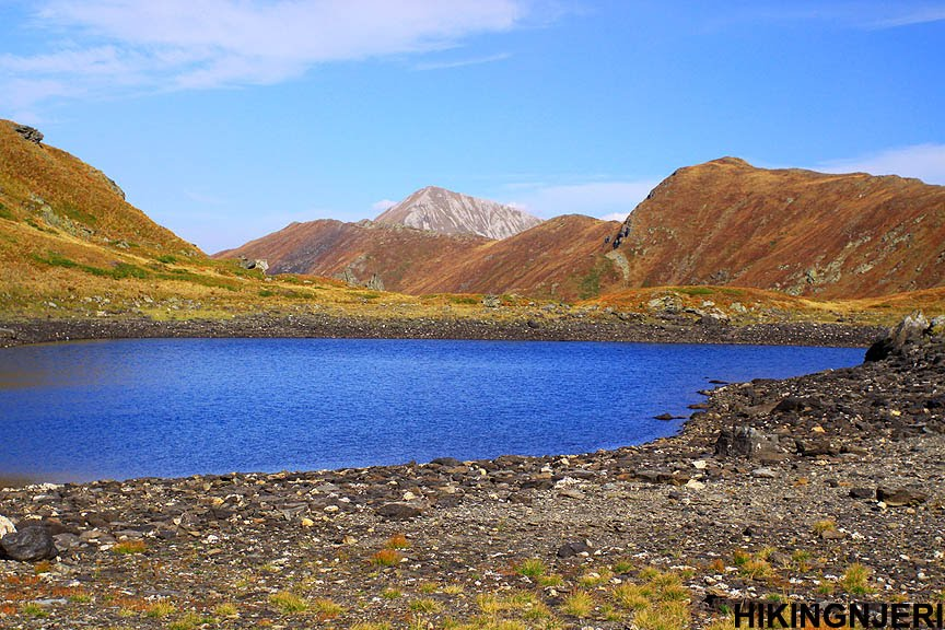 Natural lake of Brezovica Gjoli